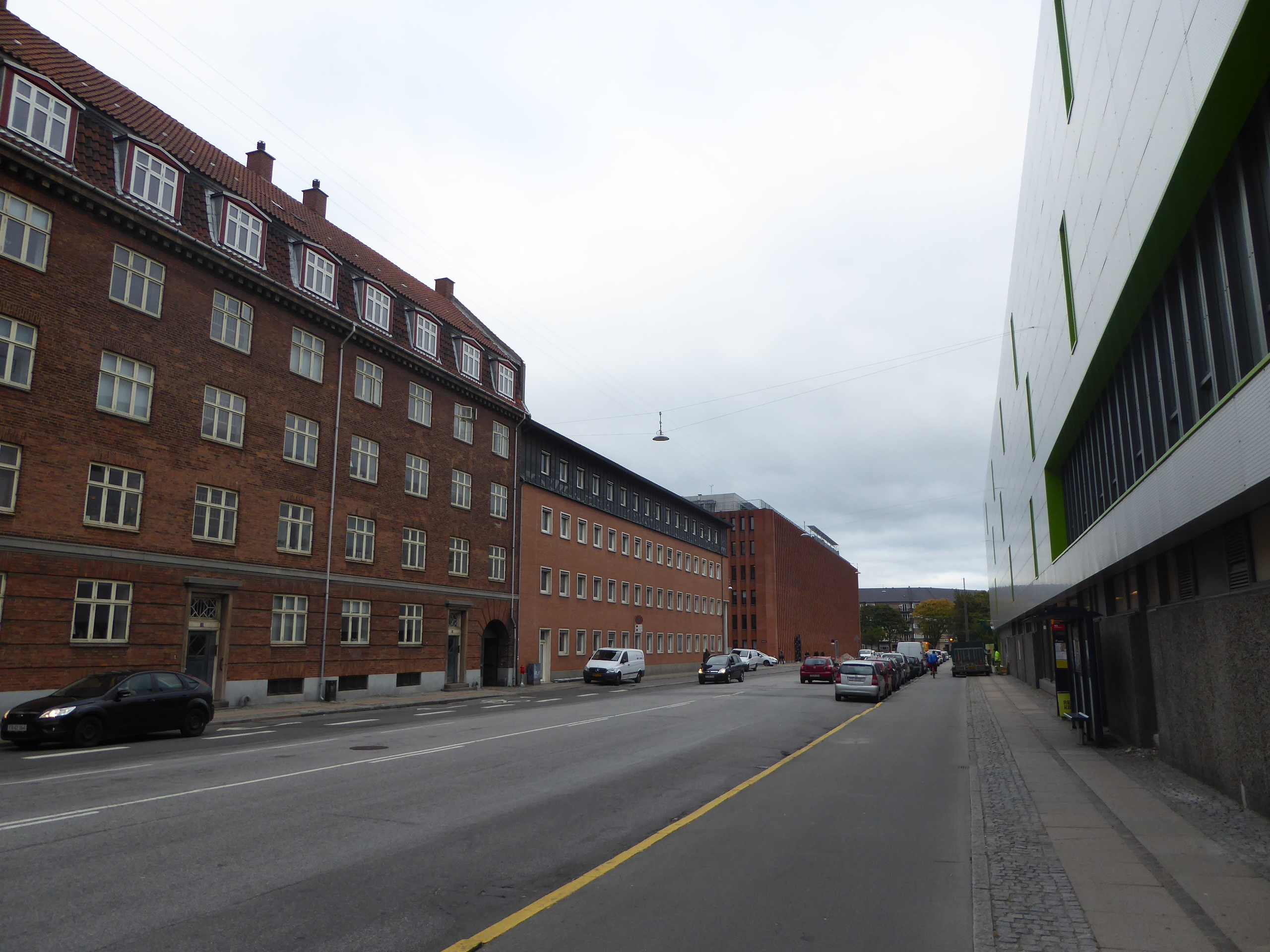 The street Sejrøgade in Østerbro in Copenhagen.